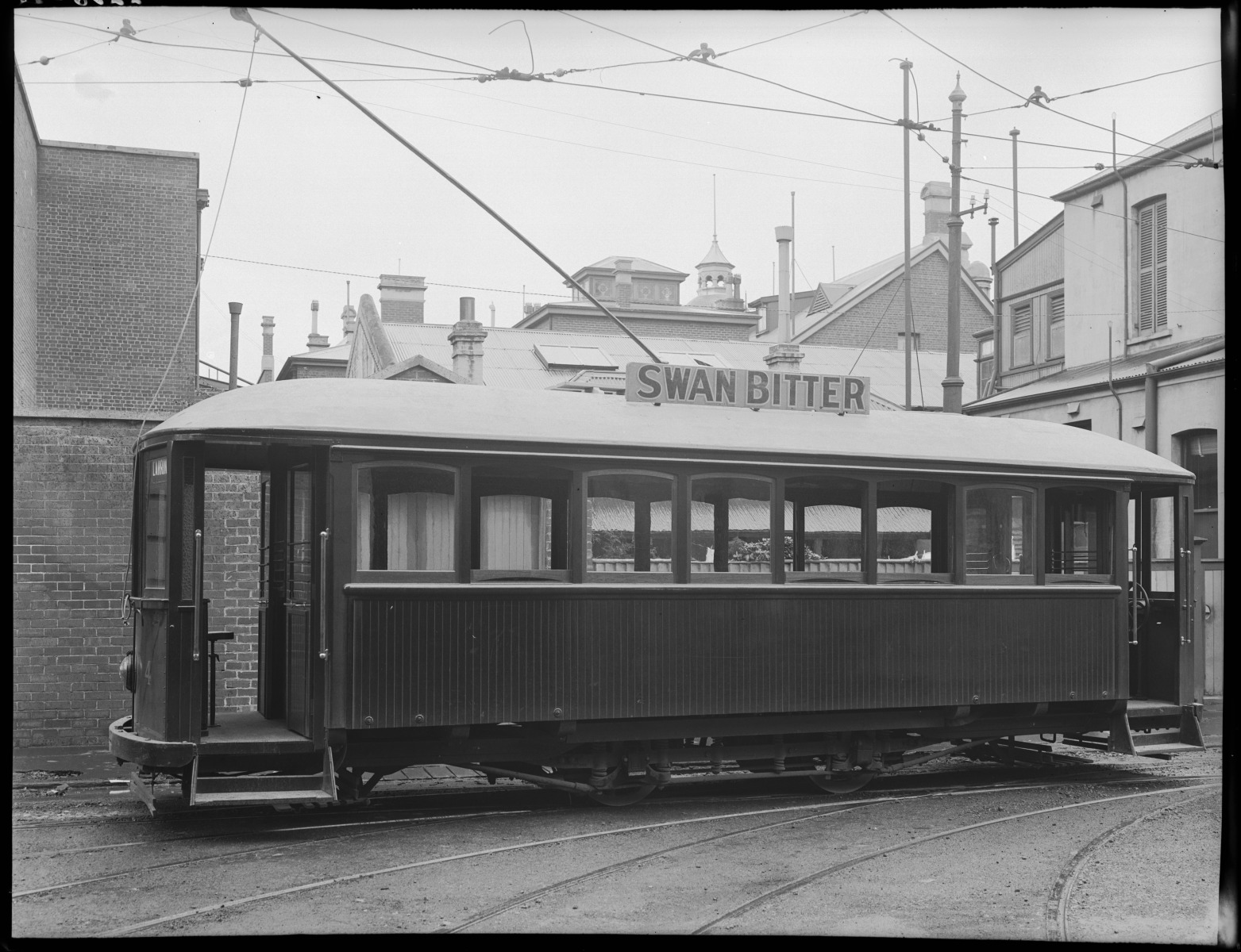 Fremantle Municipal Tramways tram no 4, outside the High Street car barn.